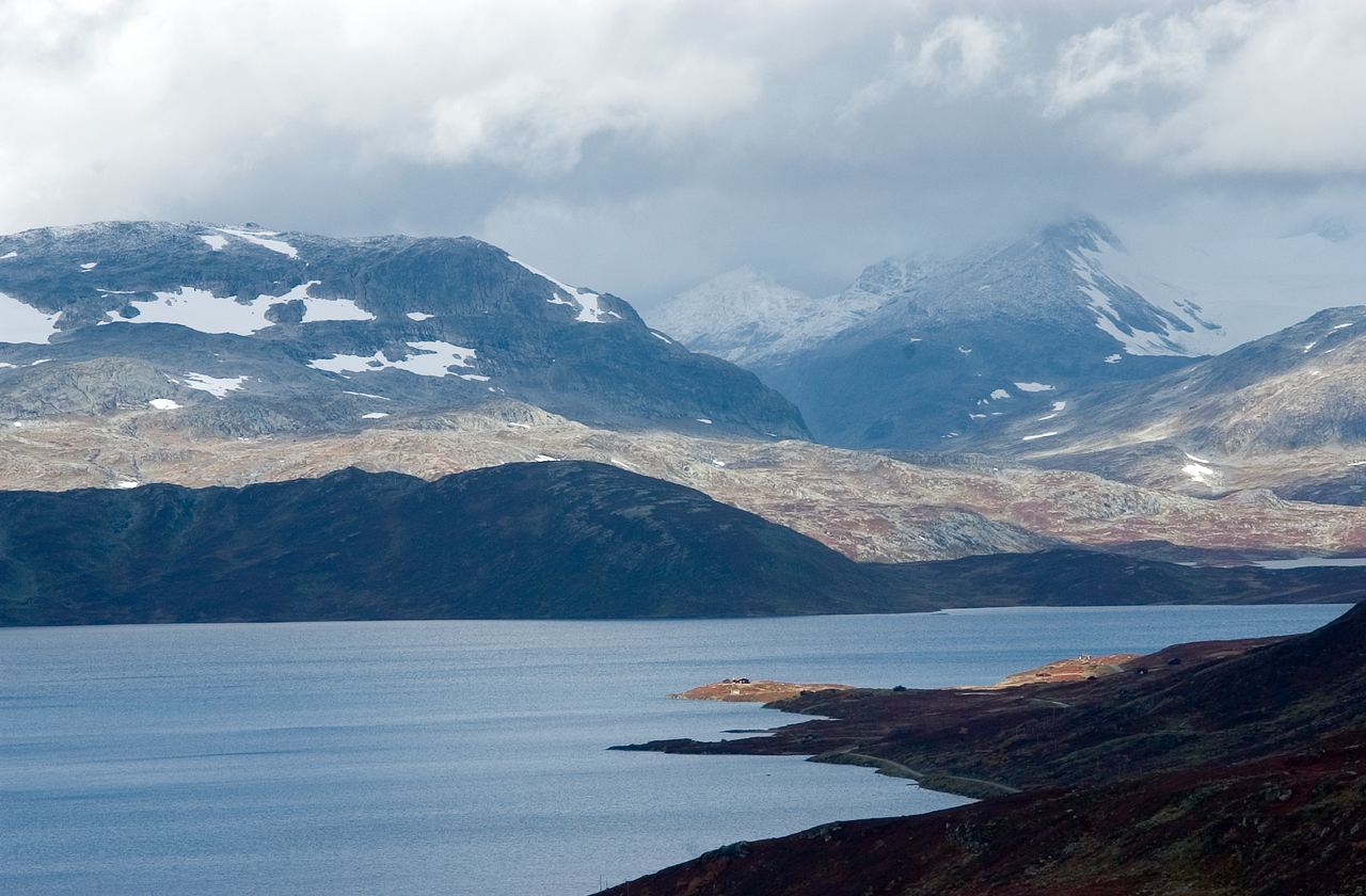 Jotunheimen National Park towards the north. The peak is called Uranostind. Tyin lake in the foreground.